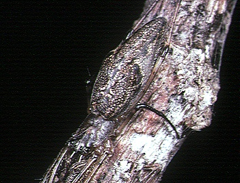 female Tetragnatha bituberculata from Okinawa.